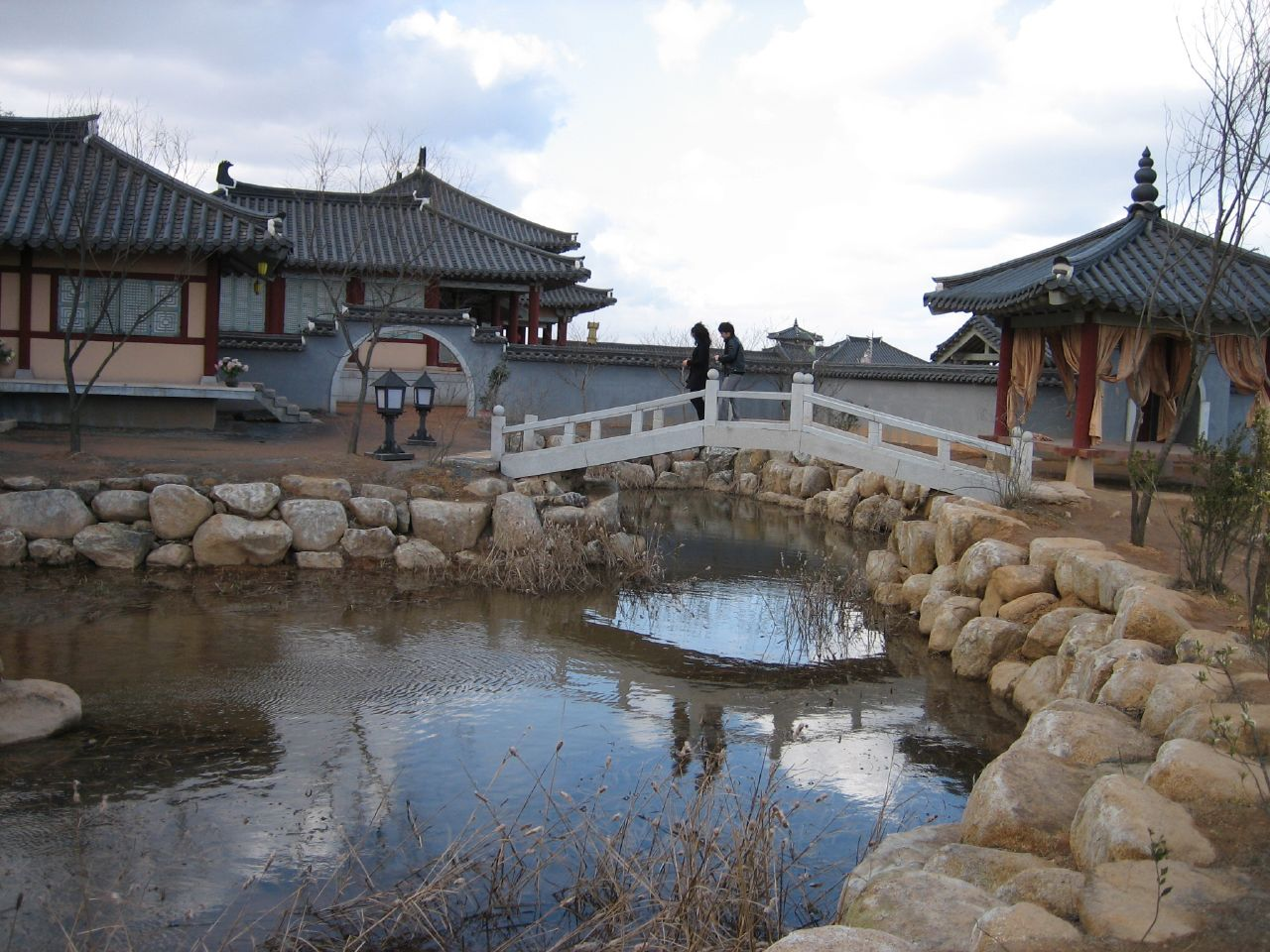 One of the sites specially built for filming 'Jumong', one of the most popular Korean TV dramas.